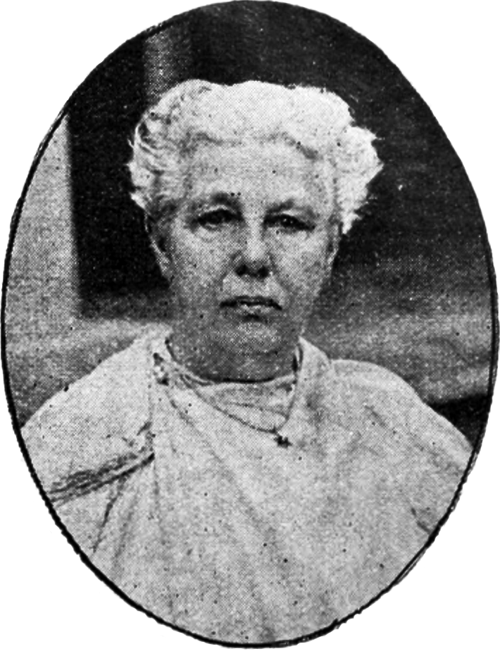 Illustration from the book Mahatma Gandhi, His Life, Writings and Speeches (1917).